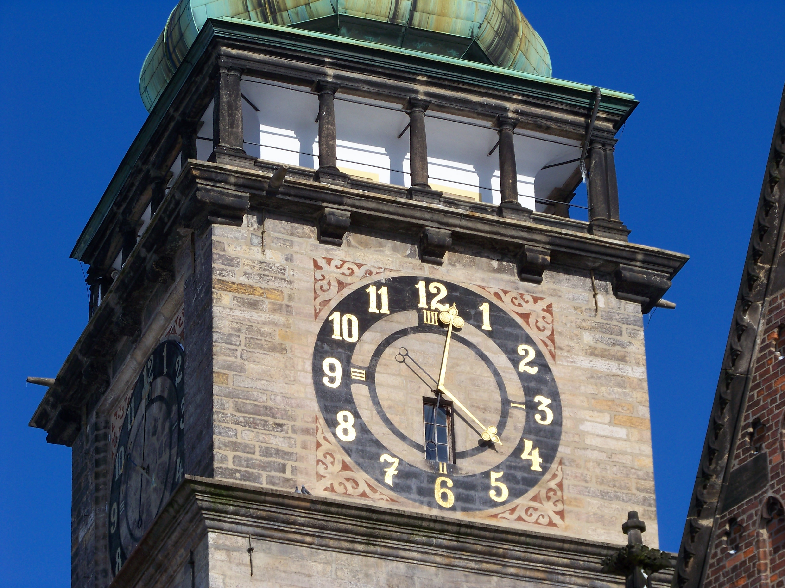 Hradec Králové, the Czech Republic. White Tower.